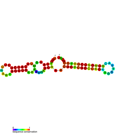 Conserved secondary structure of ptaRNA1.